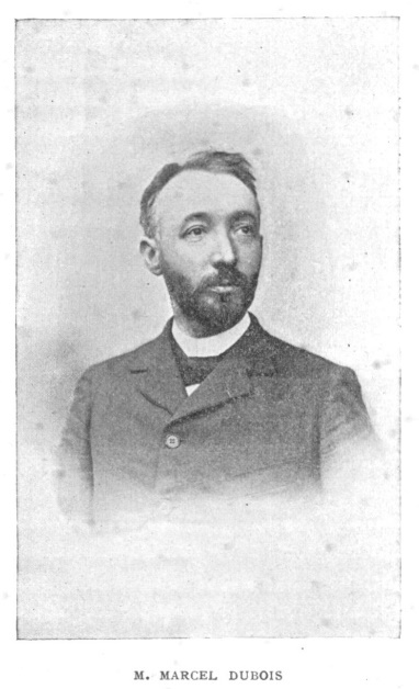 Portrait of the French geographer Marcel Dubois (25 July 1856 – 23 October 1916). Published in the Bulletin de la société normande de géographie, 1897, volume 19, p. 337. The photograph seems to have been taken well before the publication date, when Dubois would have been aged 41.